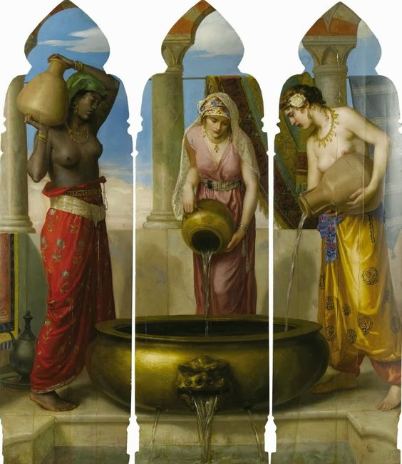 The Danaides by Walter Crane.